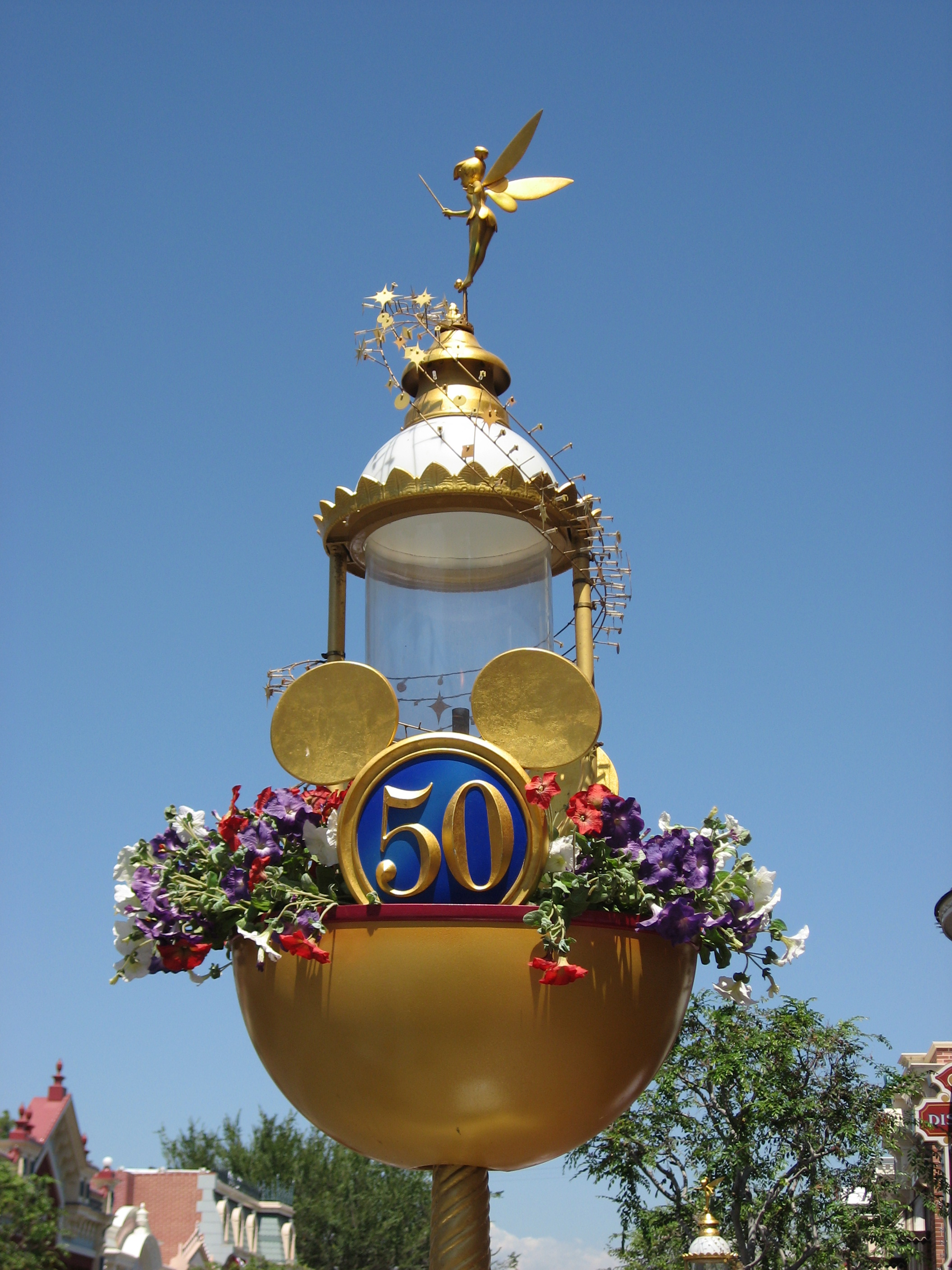 Lamppost on Main Street, U.S.A. decorated for Disneyland's 50th Anniversary.